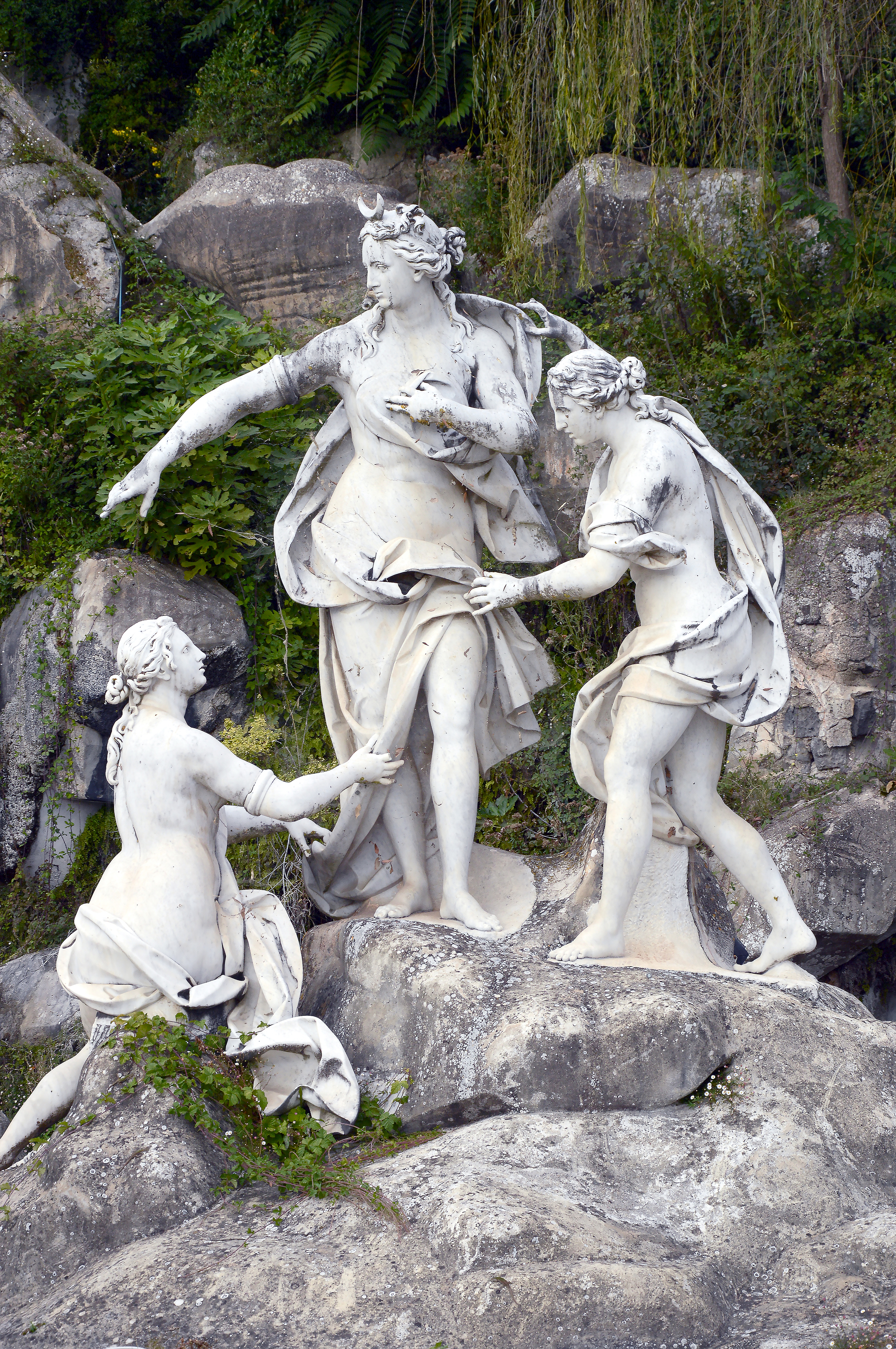 Royal Park of the Palace of Caserta - Diana and Atteone Fountain